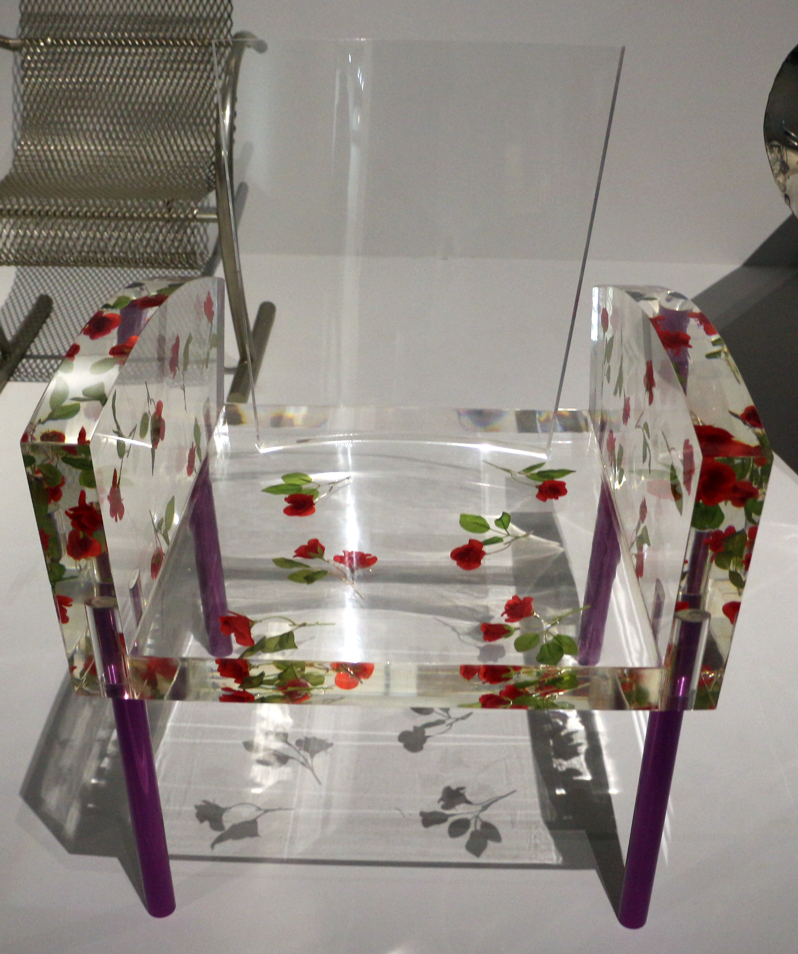 Decorative arts in the Musée national d'art moderne